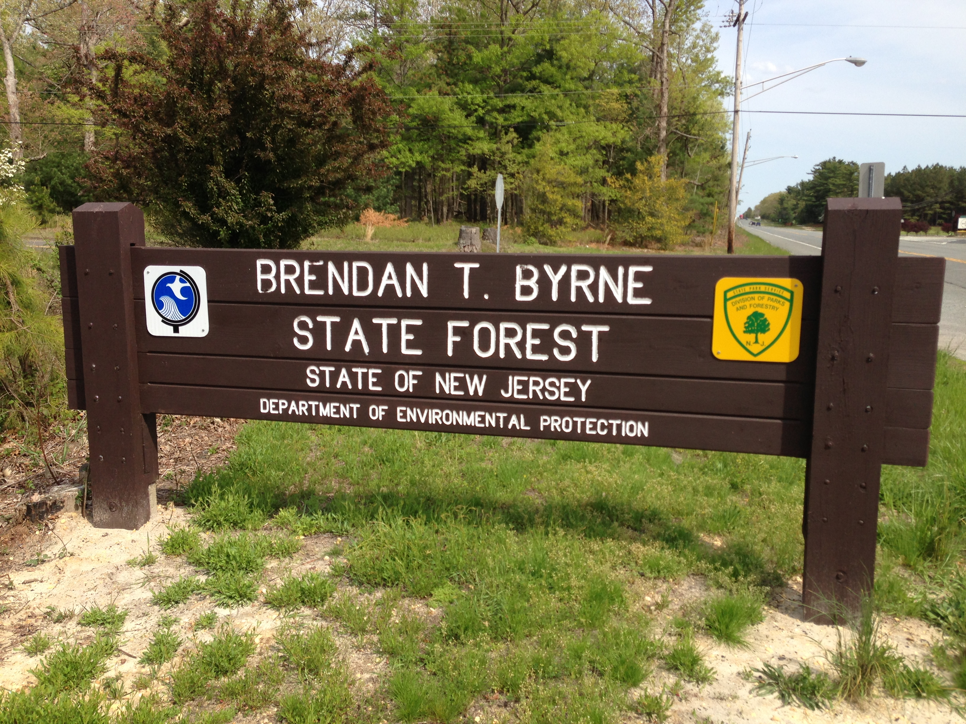 Sign for Brendan T. Byrne State Forest on May 10th 2013